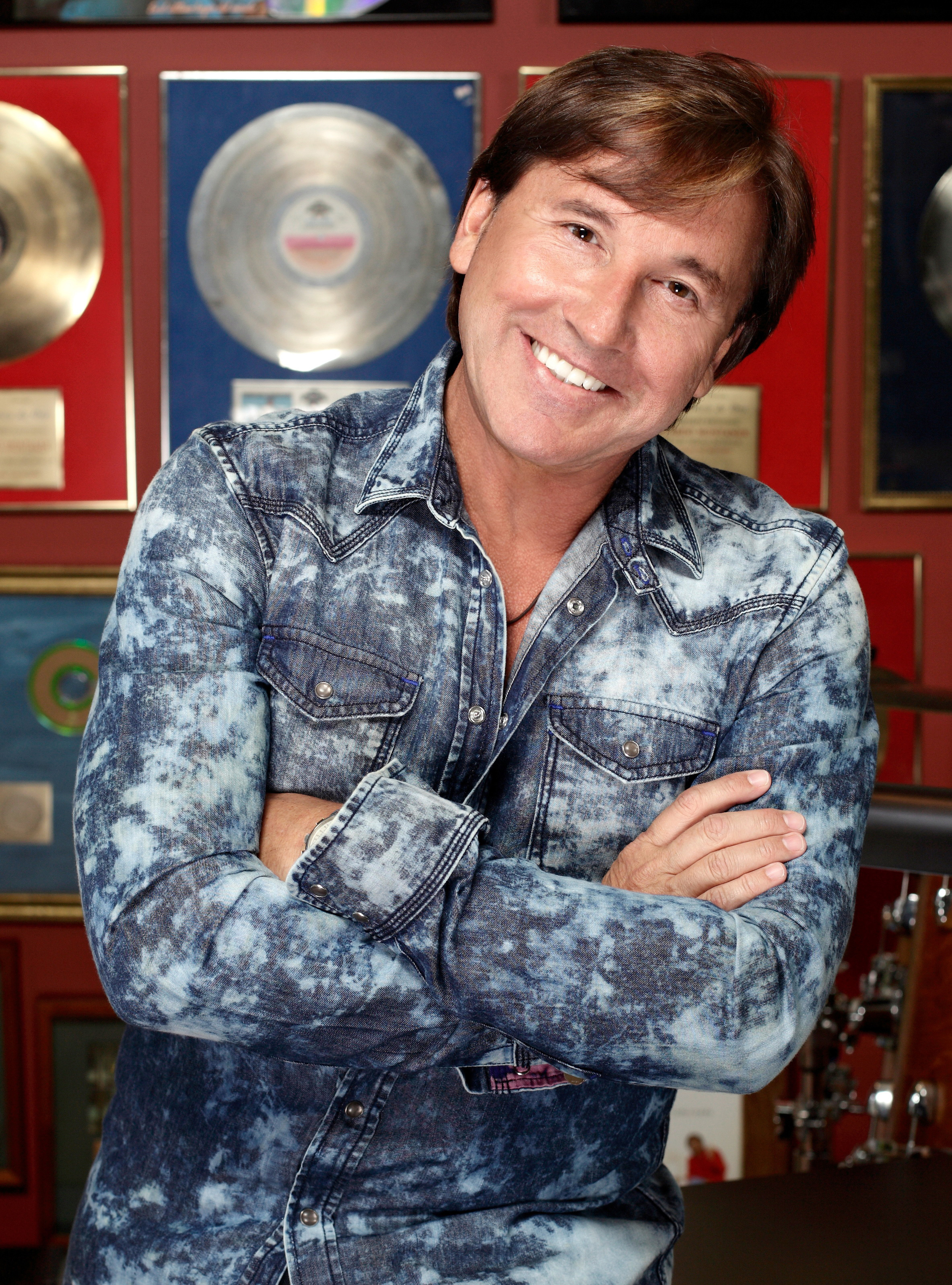 Ricardo Montaner in Miami, Florida, United States Of America.